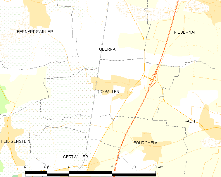 Map of French municipality